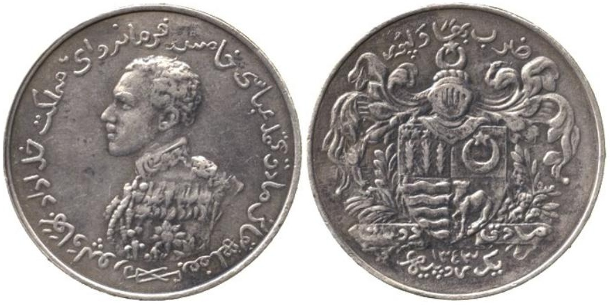 Indian princely state of Bahawalpur, later a Princely state of Pakistan, silver One Rupee coin of Sadeq Mohammad Khan V (ruled AH 1325-1373; 1907-1955 AD)